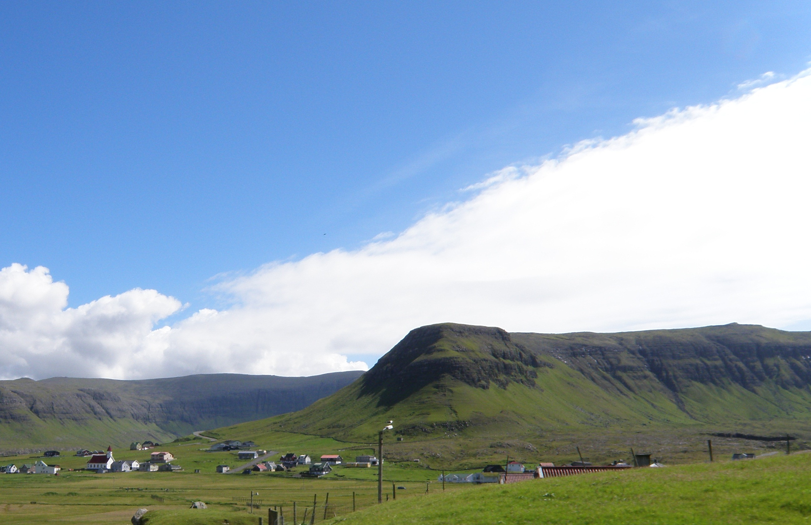 Prestfjall is a 471 meter high mountain in Hvalba, Suðuroy in the Faroe Islands. There have been coal mines in the mountain for some centuries. Hvalba has a history of coal mining which dates back to around 1770. The field and the land of the mountain used to belong to the Priest's Rectory (Prestagarður), because of that the mountain was named Prestfjall. Føroyskt: Prestfjall er eitt fjall í Hvalba í Suðuroynni, sum er 471 metrar høgt. Allur bøurin og hagin hoyrdi fyrr til Prestagarðin í Hvalba, tí fekk fjallið navnið Prestfjall. Fleiri kolanám hava verið í Prestfjallið og eitt nýtt kolanám verður grivið har nú (2010).